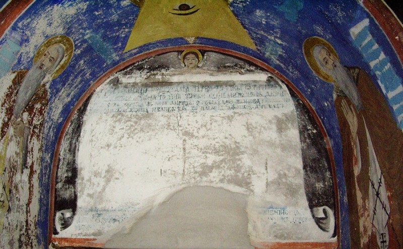 Erazed inscription in Bulgarian above the entrance of St Dimiter Church in Panorama (Kalapot), Drama, Greece